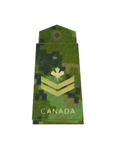 Canadian Forces Master Corporal (Army) rank insignia on CADPAT slip-on